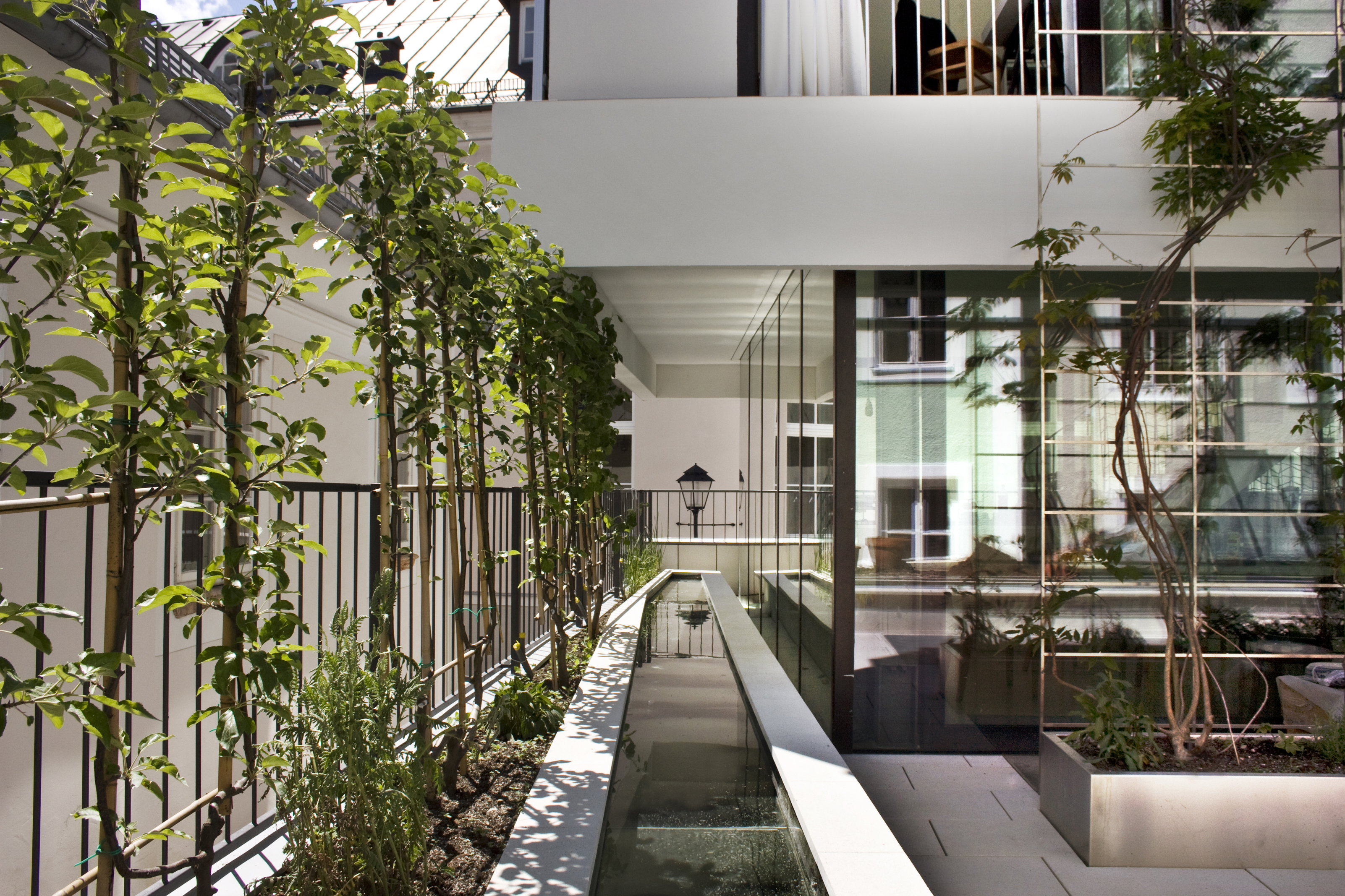 This picture is showing the roof garden at the "residential and studio house Lechner" by Lechner & Lechner architects, Priesterhausgasse 18, 5020 Salzburg, AUSTRIA